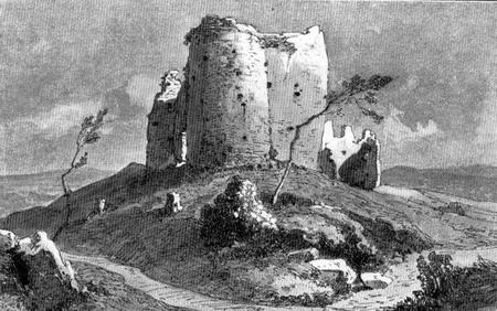 Ruins of Žrnov, a medieval fortress which existed on Avala.